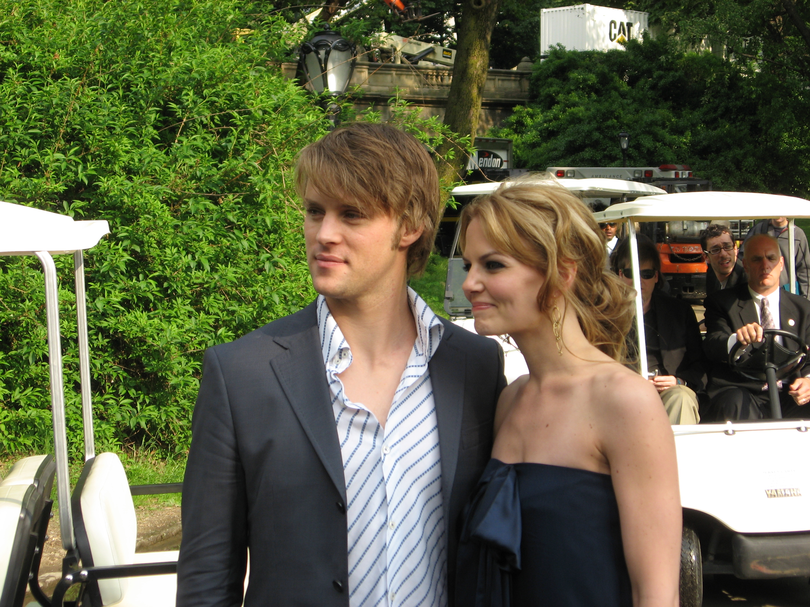 Jesse Spencer and Jennifer Morrison at Fox Upfronts 2007.